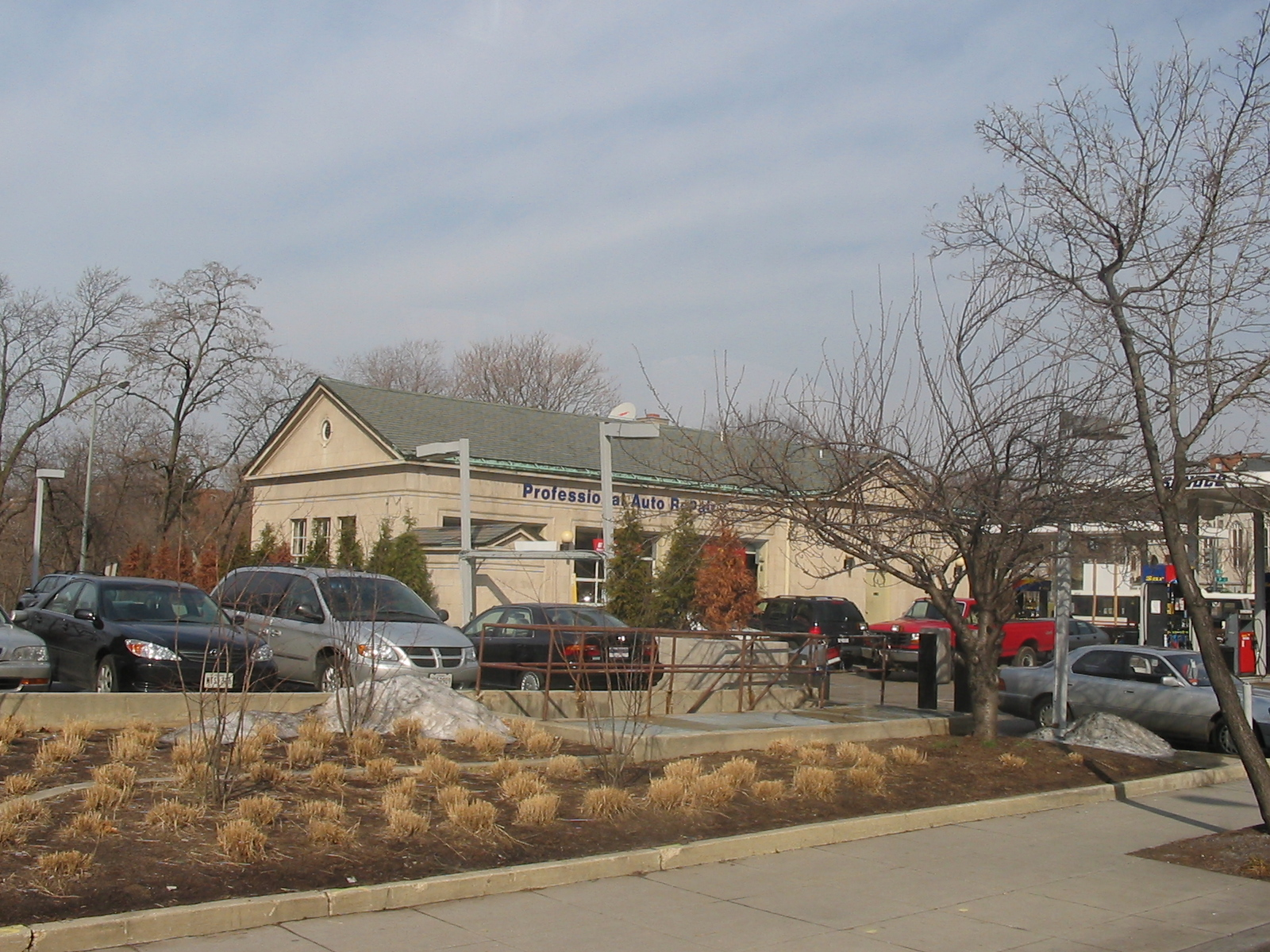 Embassy Gulf Service Station